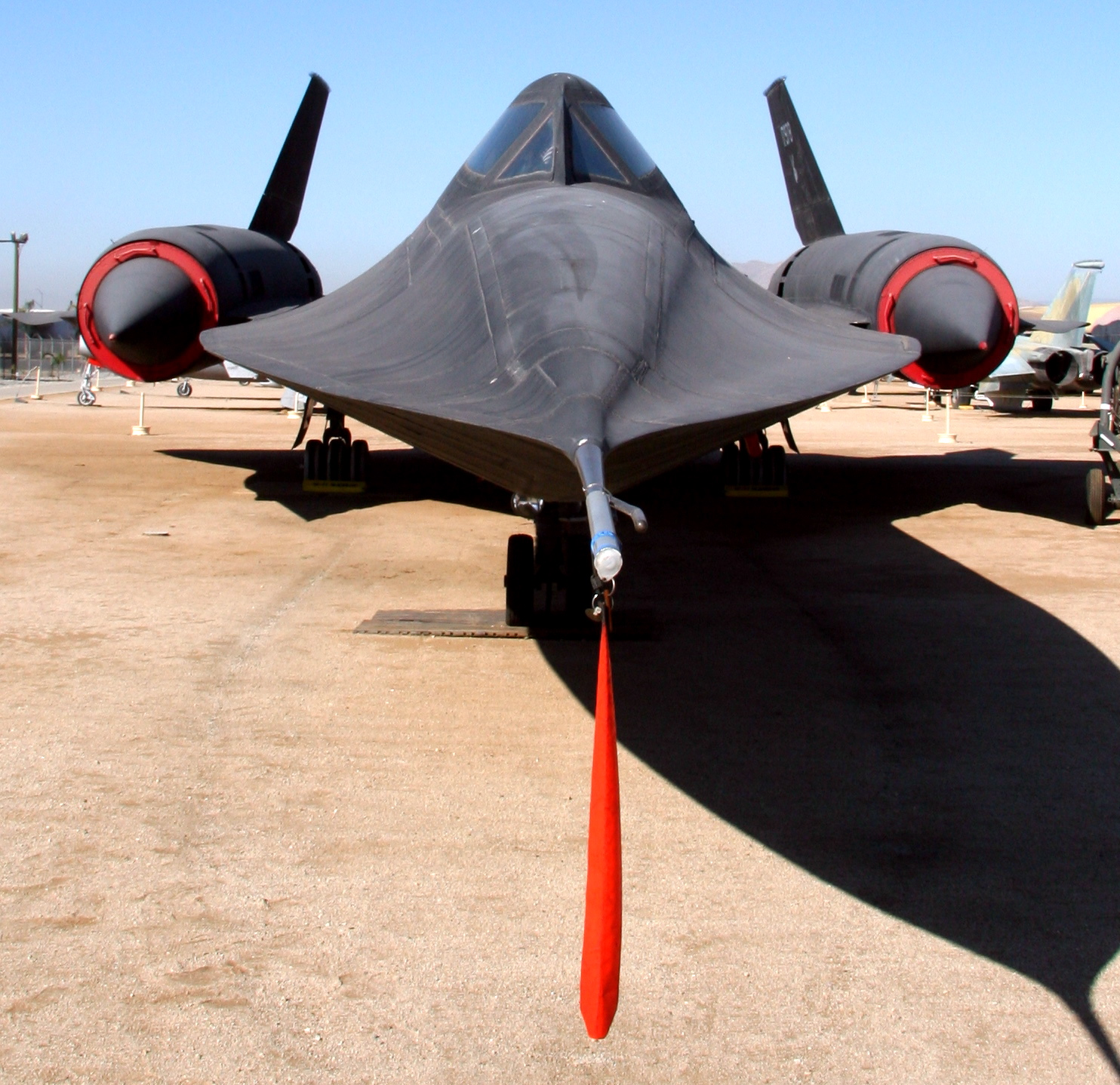 Lockheed SR-71A 'Blackbird' at the March Field Air Museum, Riverside, California